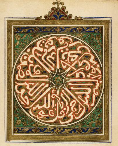 Surat Al-Ikhlas - Maghribi script, 18th Century, North Africa.